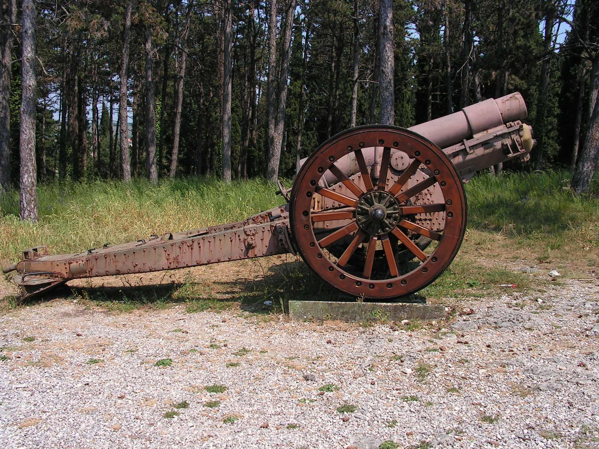 Italian howitzer 152/13 Comment : This is a British BL 6 inch 26 cwt Howitzer.